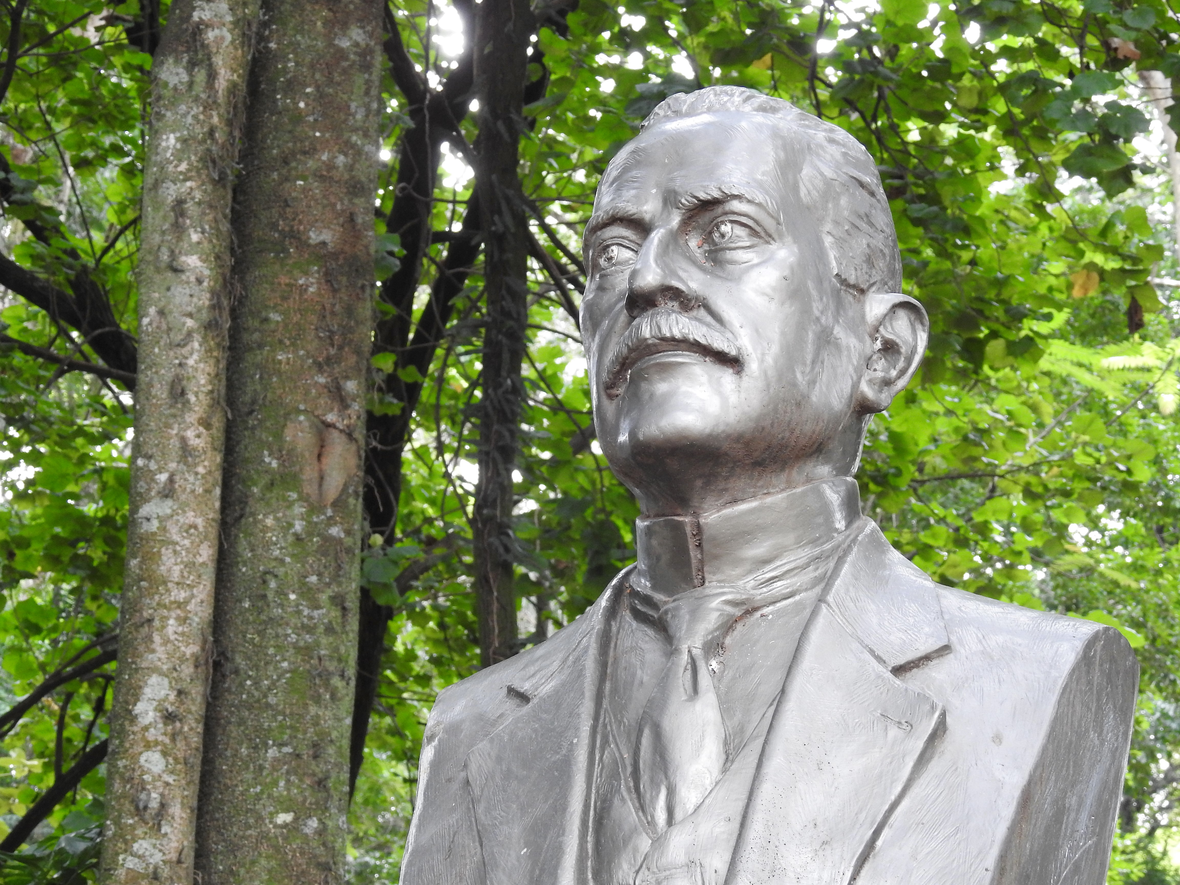 São Carlos is a city of 221,950 inhabitants (IBGE/2010) in the state of São Paulo, Brazil. It is located at 22°01′04″S 47°53′27″W, at about 231 km from the city of São Paulo.